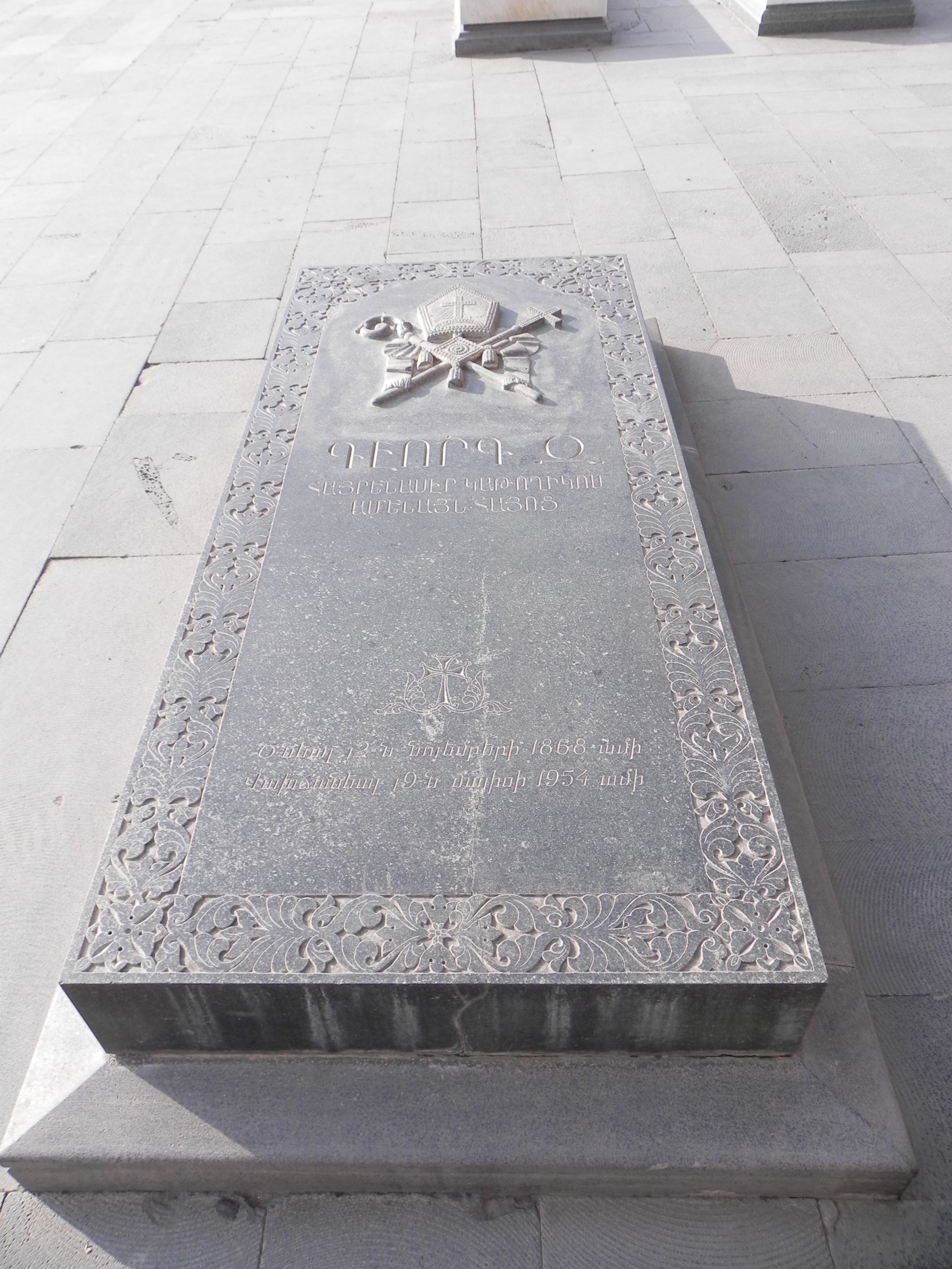 Tombstone of George VI, Catholicos of All Armenians at Mother Cathedral on the grounds of the Mother See of Holy Etchmiadzin